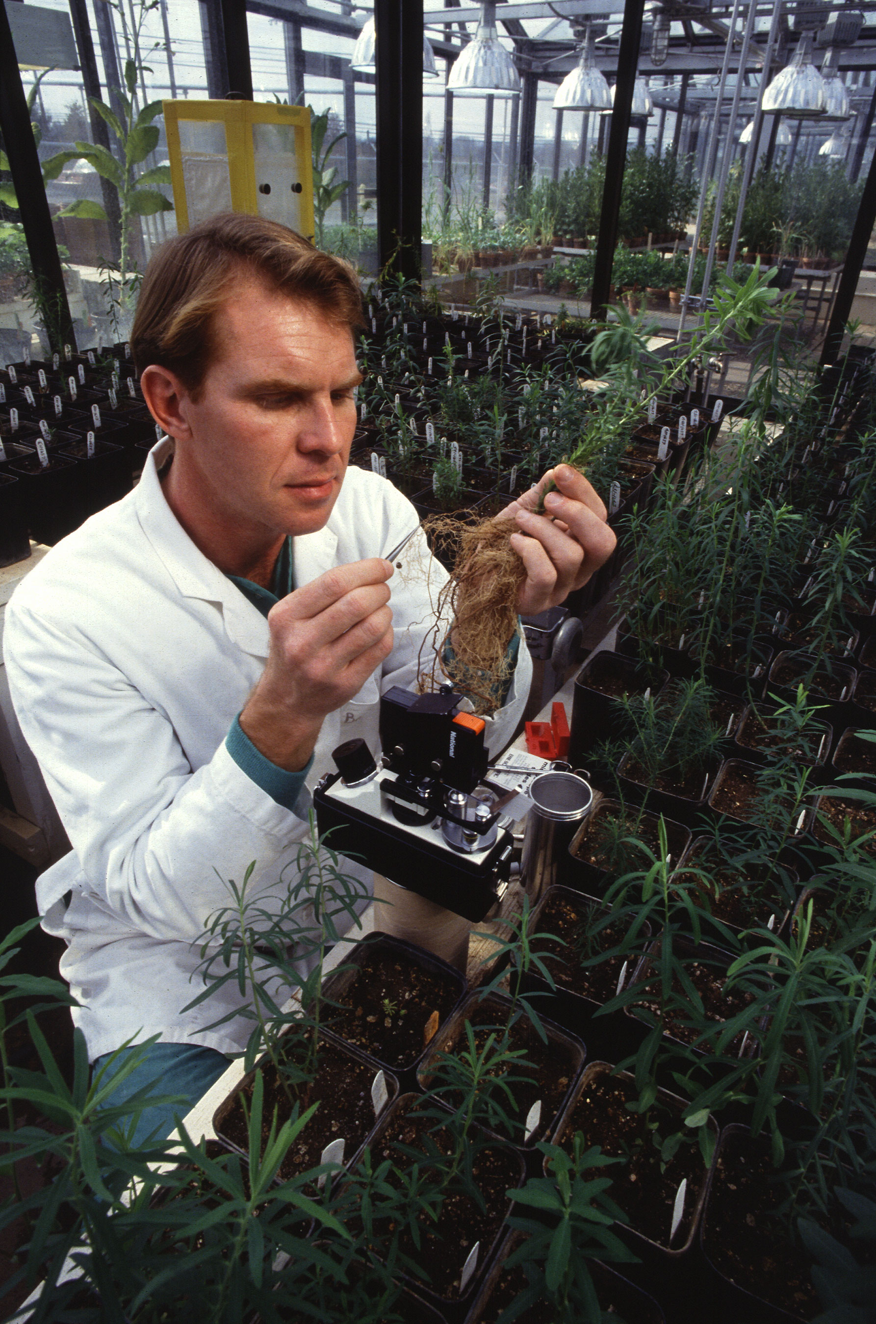 Rick Bennett examines roots of a leafy spurge from Russia for pathogens which could be used for biocontrol of this weed in the United States.